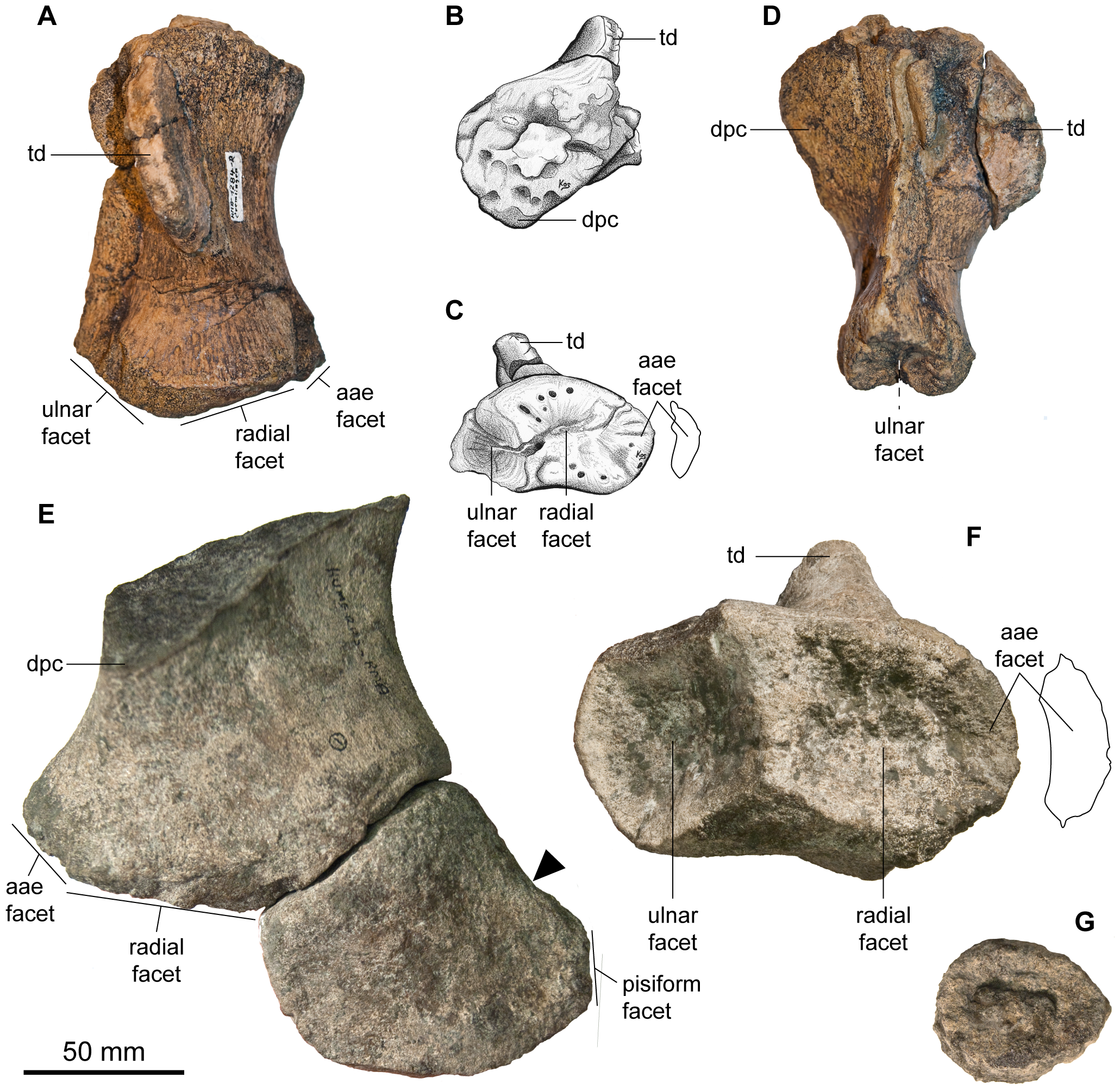 Forefin of Acamptonectes densus. A–D: right humerus of NBM1284-R, in dorsal view (A), proximal view (B), distal view (C), and posterior view (D). E,F: right humerus of GLAHM 132588 (holotype), in ventral view with the associated ulna (E) and in distal view (F). The arrow points at the concave and edge-like posterior surface of the ulna, diagnostic of ophthalmosaurine ophthalmosaurs. G: proximal phalange of GLAHM 132588 (holotype). Abbreviations: aae facet: facet for the anterior accessory element; dpc: deltopectoral crest; td: trochanter dorsalis.